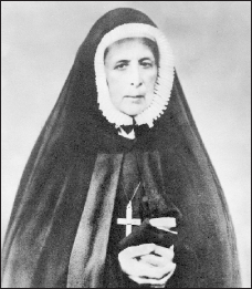 Portrait photography of st. Therese Couderc, foundress of the Sisters of the Cenacle